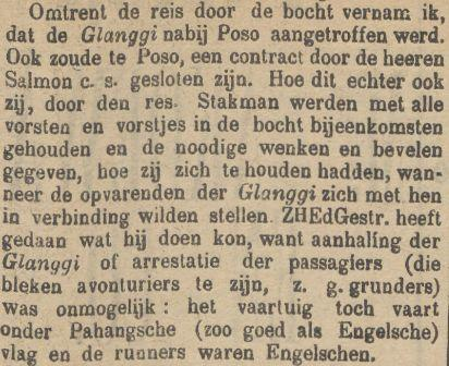 Report about SS Glangy, an English steamboat in the Gulf of Tomini, Dutch East Indies.